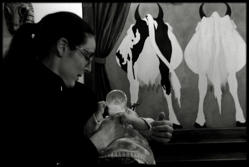 Ana Maria Duran Calisto is nurturing her daughter while sitting in front of a painting that belongs to her good friend, the Ecuadorean artist Ana Isabel Bustamante. The photography was taken y Diego Cifuentes.